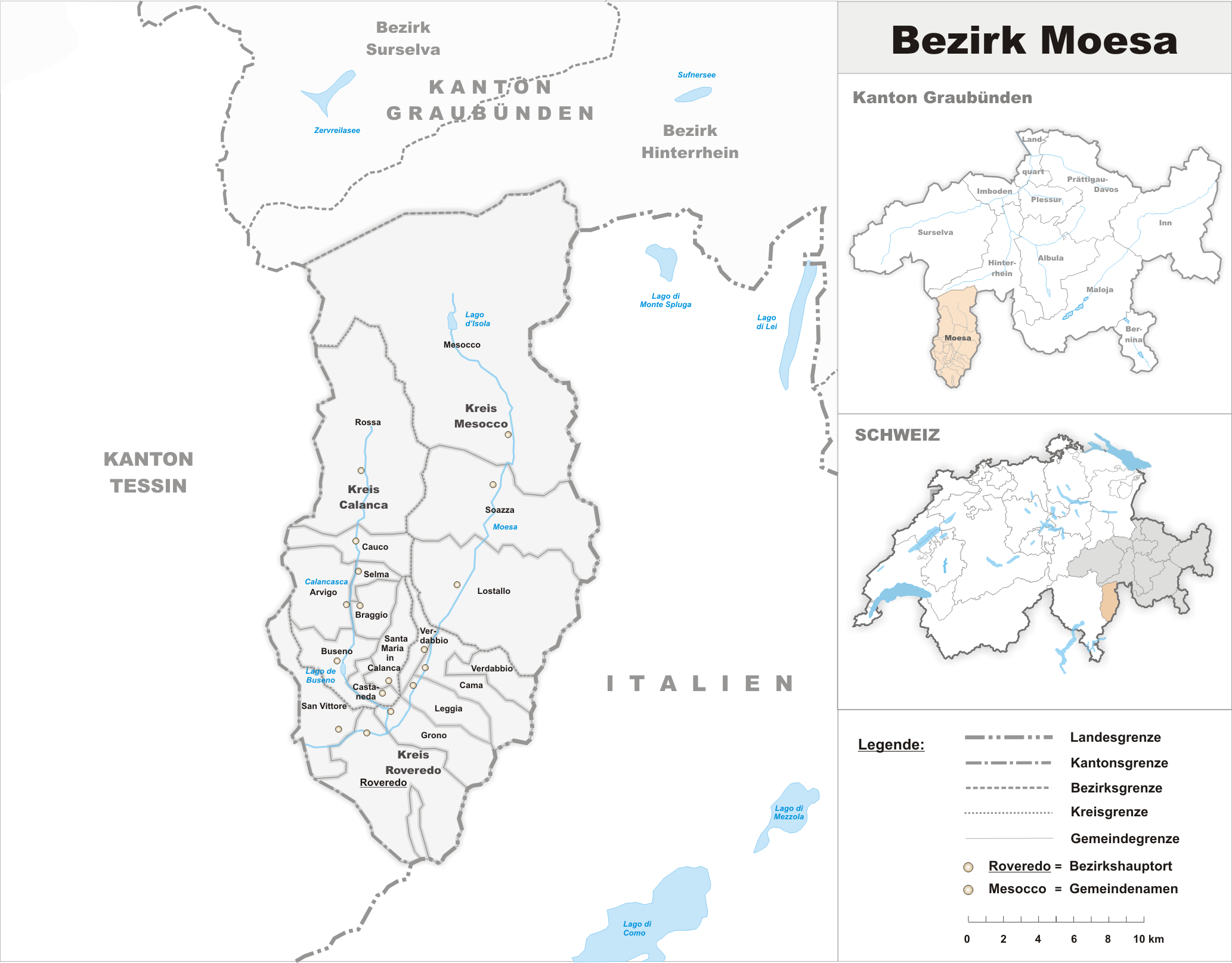 Municipalities in the district of Moësa